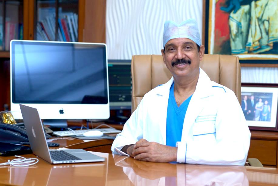 Dr. Panda's image in his cabin